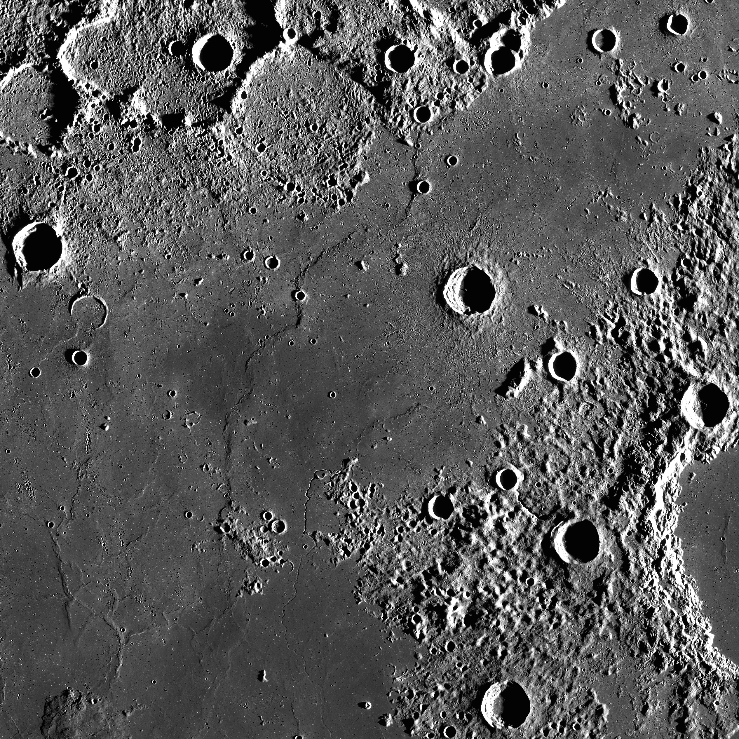 Sinus Roris on the Moon. Mosaic of photos by Lunar Reconnaissance Orbiter, made with Wide Angle Camera. Size of the image is 600×600 km, north is up.